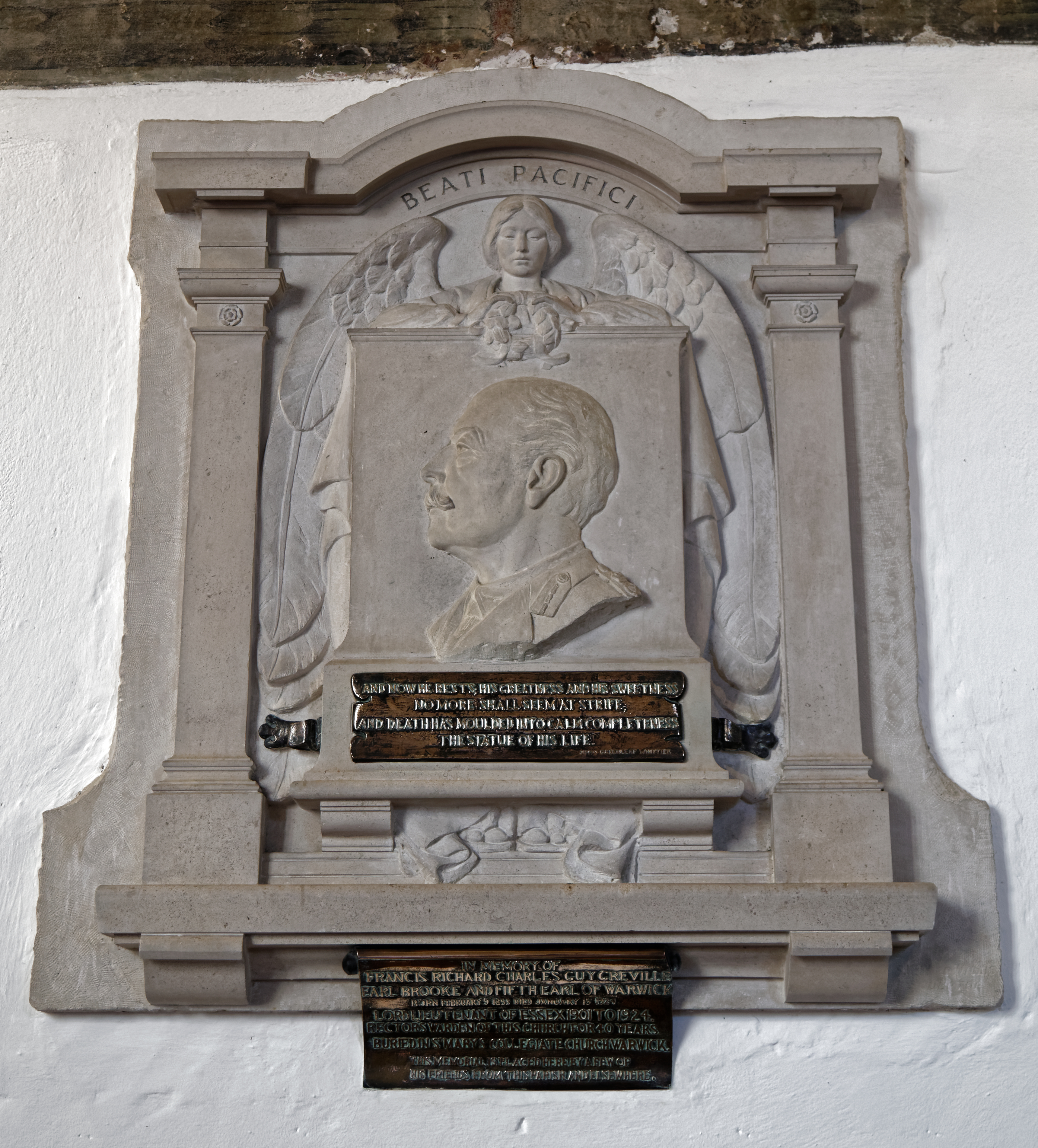 The wall monument to Francis Greville, 5th Earl of Warwick in the Church of St Mary the Virgin at Little Easton, Essex, England.Software: RAW file lens-corrected, optimized and converted to JPEG with DxO OpticsPro 10 Elite, and likely further optimized and/or cropped and/or spun with Adobe Photoshop CS2.